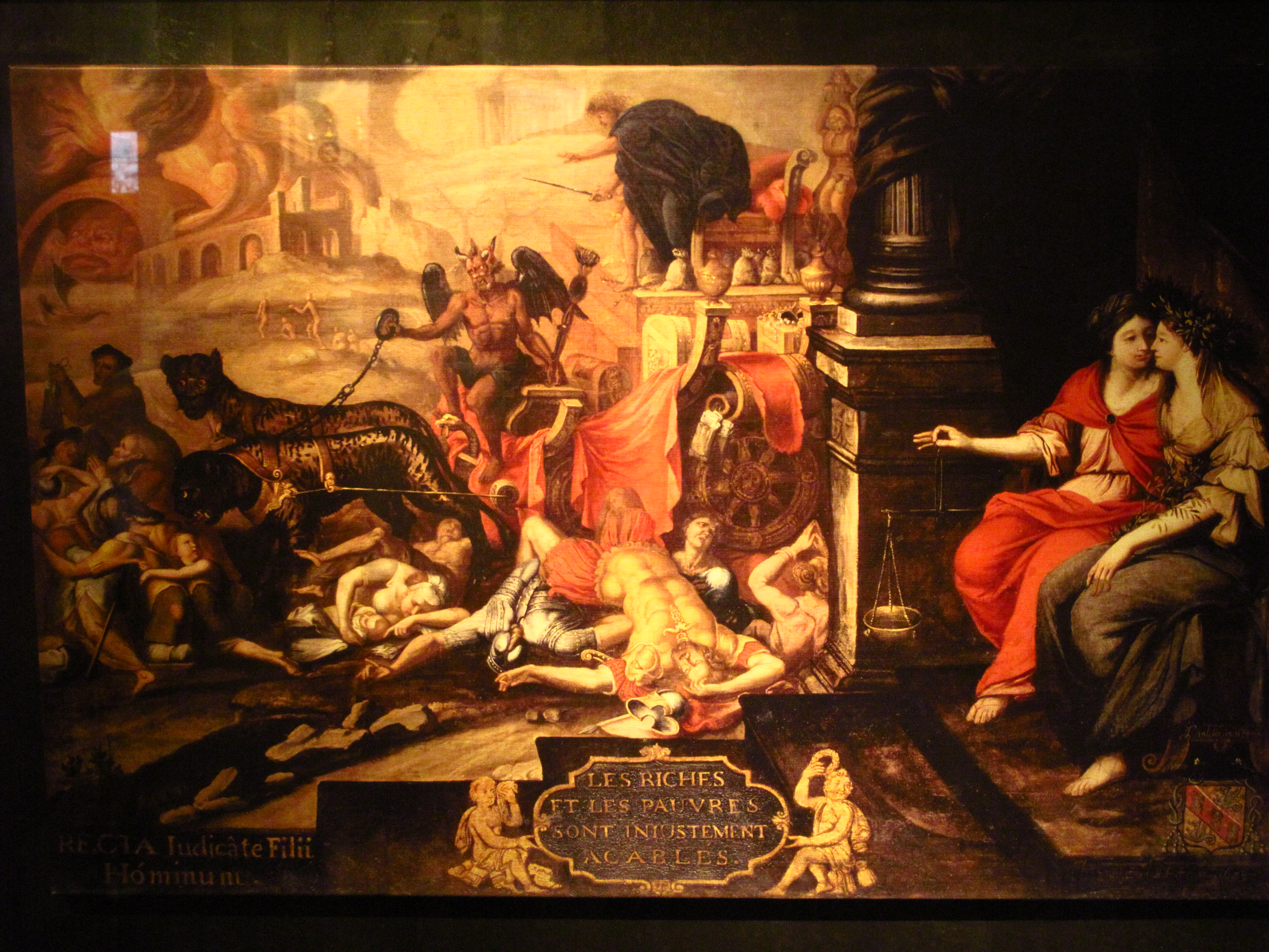 The tax is represented as a chariot driven by a devil, which is the duke of Chaulnes (governor of Britain). On the right, the allegories of Justice and Peace look away. On the left, the city of Rennes is engulfed in flames of Hell.